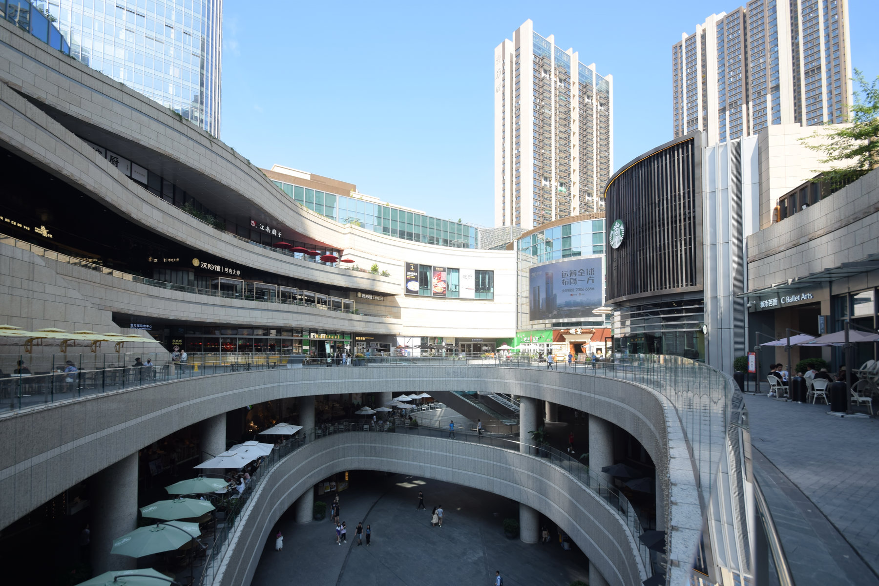 Central square of Uniwalk, Shenzhen